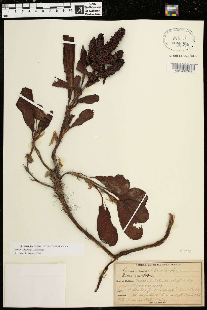 This is a photo of the University of Alabama's Rumex cuneifolius specimen. Consult the herbarium label for plant details.